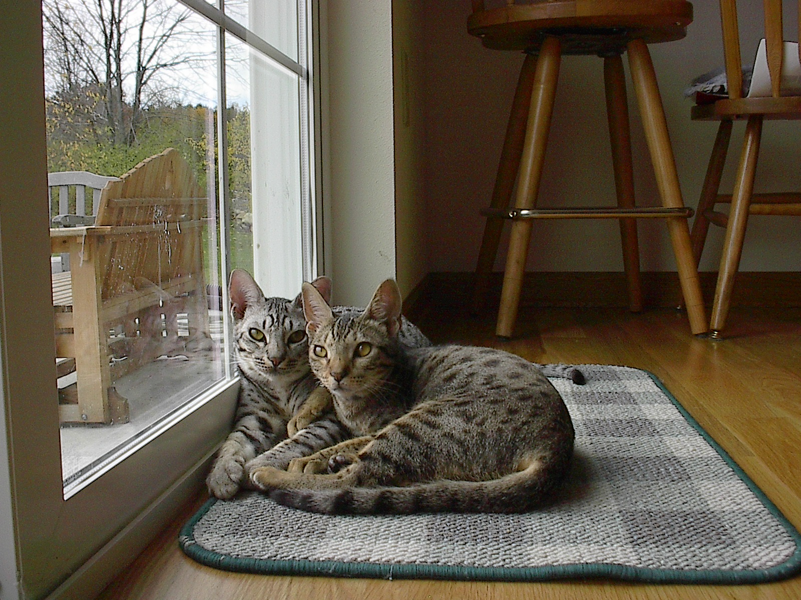 Ocicats-Oreo (siver ebony) and shadow (tawny)